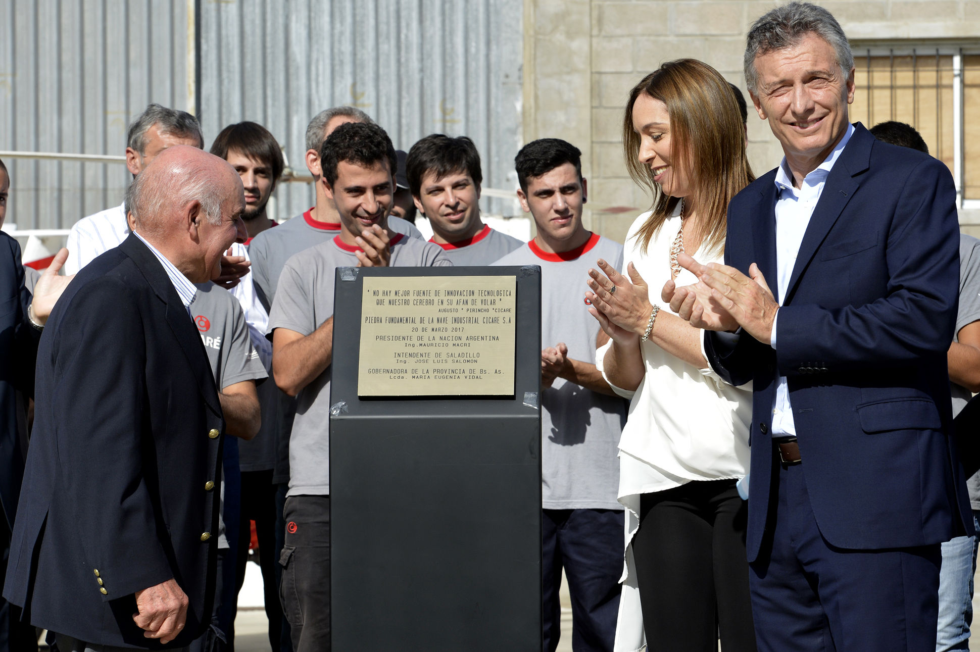 Argentina's president Mauricio Macri and Governor of Buenos Aires Maria Eugenia Vidal alongside Augusto Cicaré in his factory of helicopters